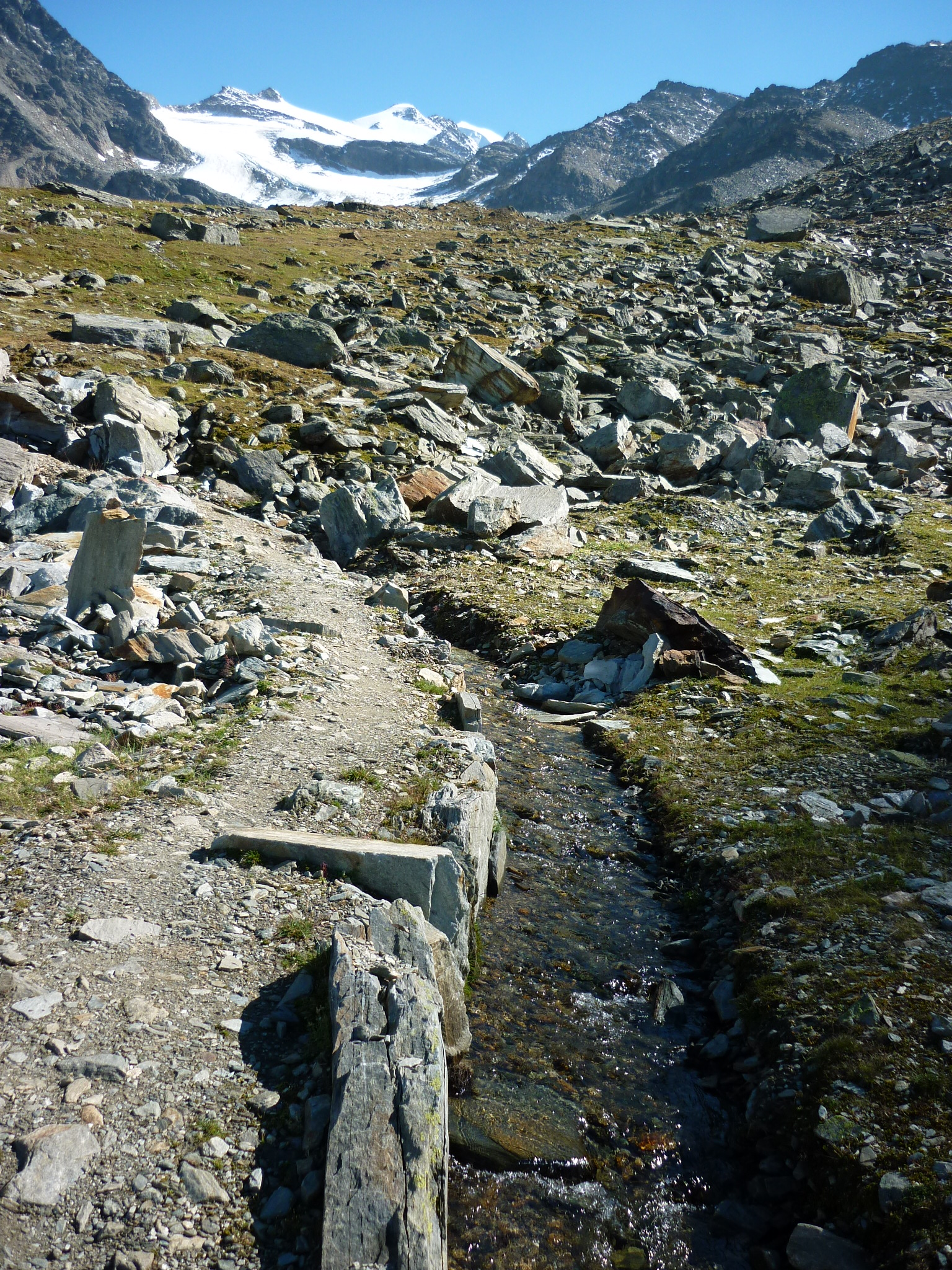 Suone Heido, Nanztal, Kanton Wallis, Schweiz